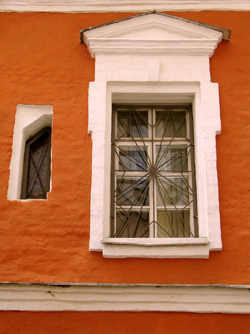 Window of a 16th century building near Ordynka Street.